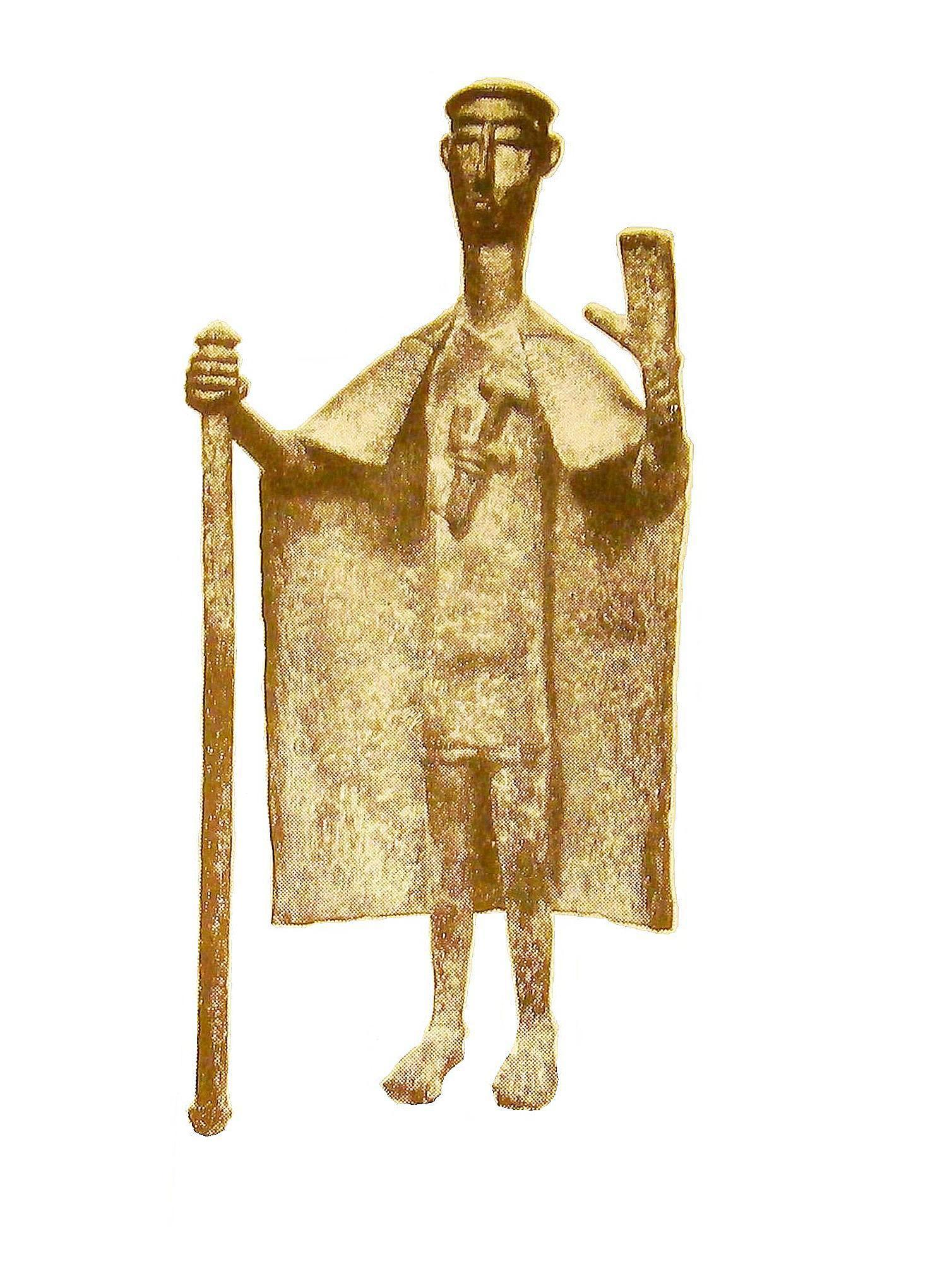 Sardegna (Italy) Bronzetto sardo (cagliari - Museo Archeologico Nazionale) Own work By--Shardan 16:42, 14 September 2007 (UTC)